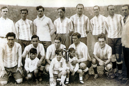 Argentine football team v Peru at the 1929 South American Championship. Back:Juan Evaristo, Angel Bossio, Oscar Tarrio, Adolfo Zumelzu, Fernando Paternoster, Rodolfo Orlandini. Front: Carlos Peucelle, Antonio Rivarola, Manuel Ferreira, Manuel Seoane, Mario Evaristo.